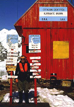 I took the photo during a trip to Antarctica in 1996